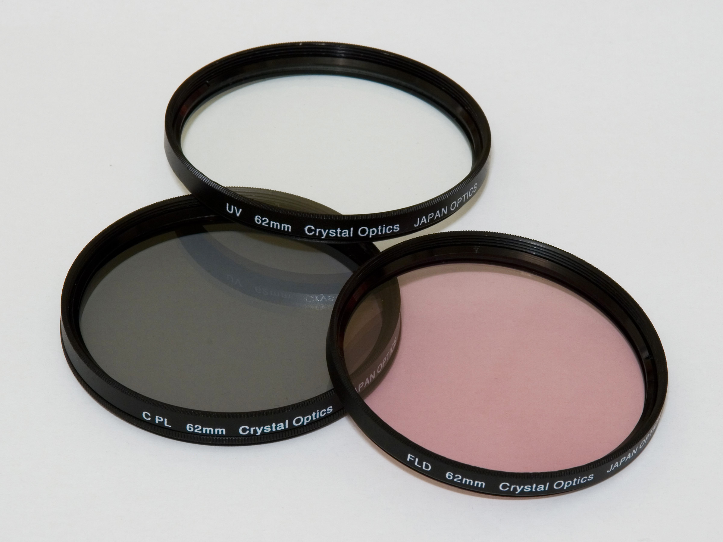 62 mm ultra-violet, fluorescent, and polarizing lens filters. Camera used was a Canon 400D.